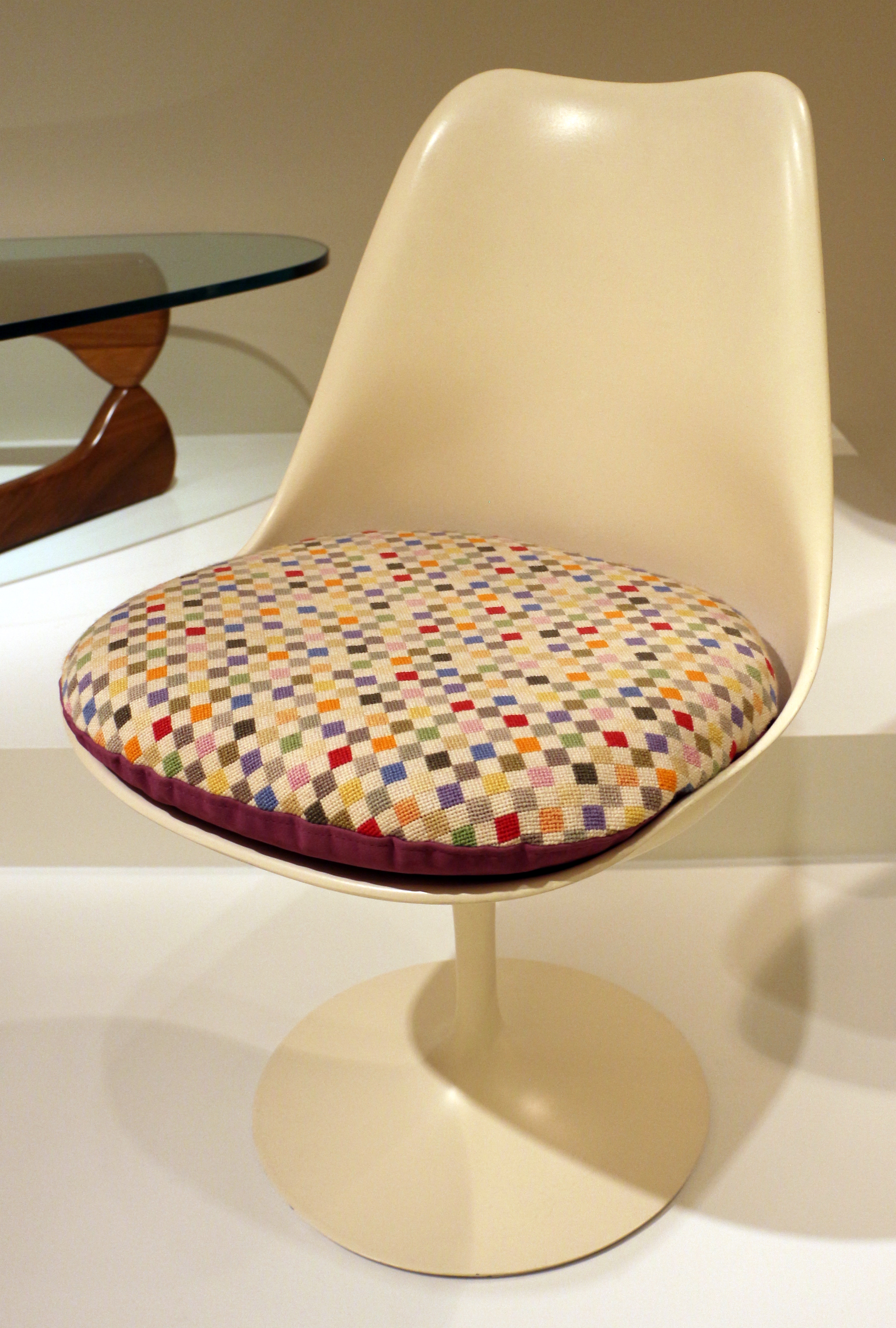 Furniture in the Indianapolis Museum of Art